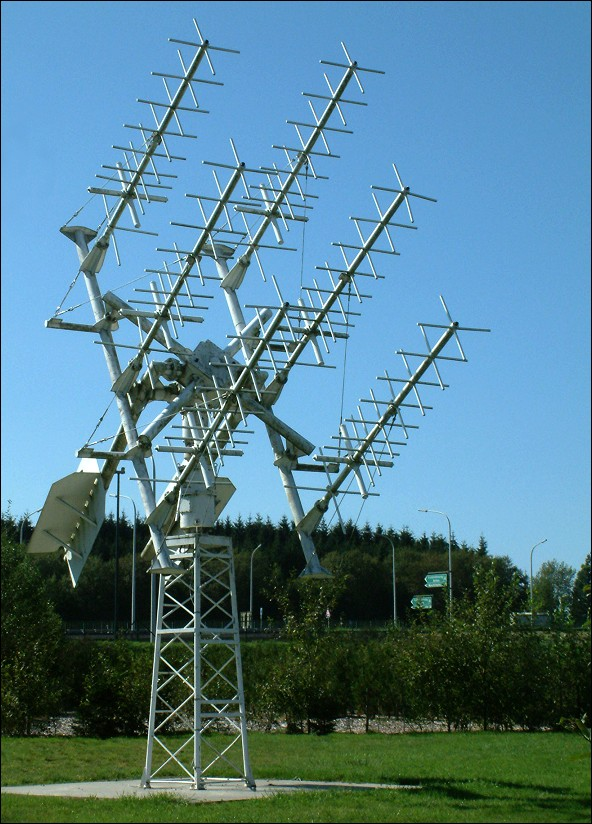 Yagi turnstile antenna array for reception of weather satellite signals on 137-138 MHz at the European Space Agency (ESA) Redu satellite communication station near the village of Redu, Belgium, 1969-2003. In this frequency range satellites transmit signals in circular polarization so that the signal can be received regardless of relative antenna orientation, necessitating a circularly polarized ground antenna. Each of the six components of the array consists of two 9 element Yagi antennas mounted at right angles on the same axis and fed with a 90° phase difference, creating a circularly-polarized beam of radio waves.